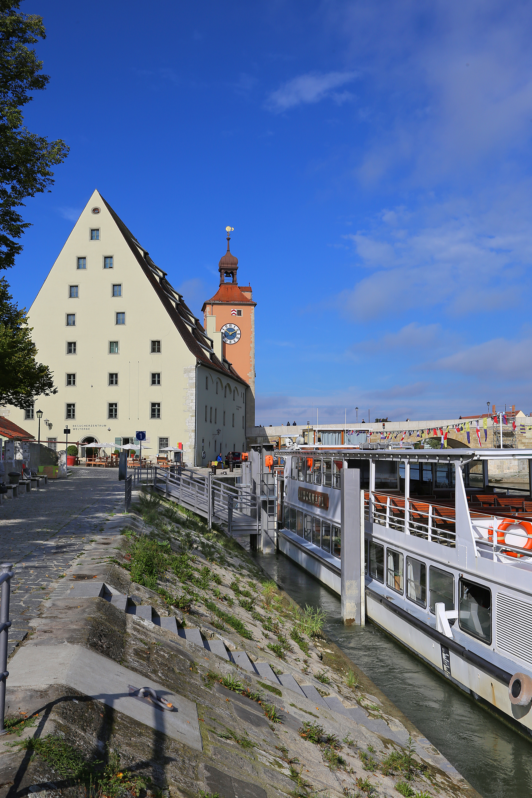 Regensburg (Germany): Ship landing stage, the building "Saltzstadel" and the tower "Brückenturm".